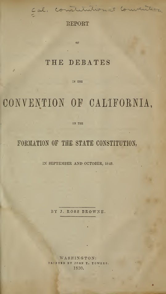 "Report of the debates in the Convention of California" — on the formation of the state constitution, in September and October, 1849 (1850) Browne, J. Ross (John Ross), 1821-1875